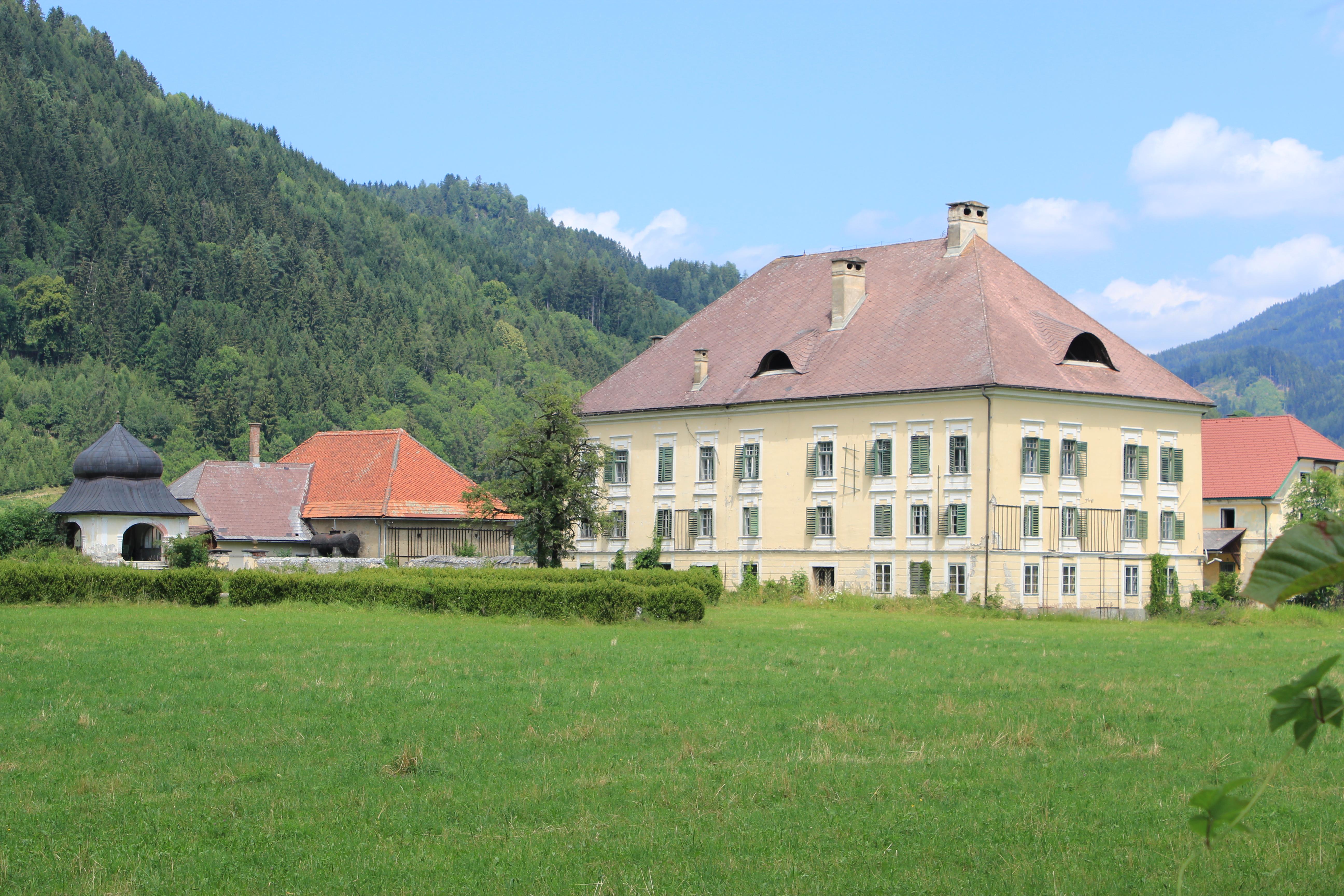 Mayerhofen estate in community of Friesach